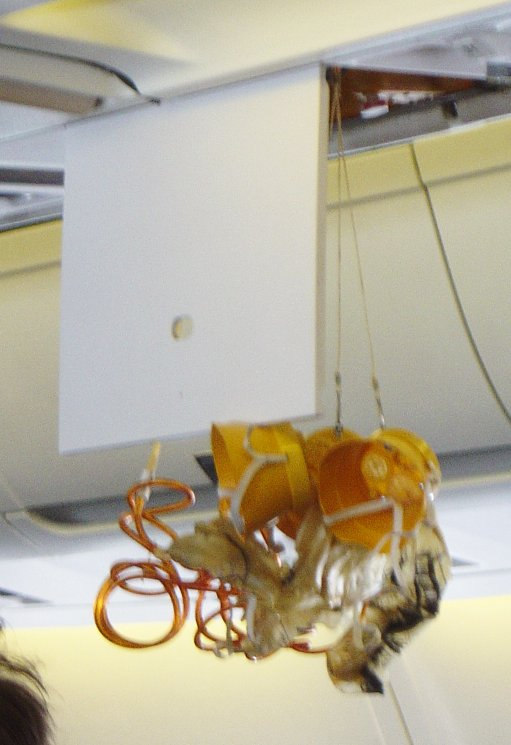 Oxygen masks for passengers aboard an airliner (dropped down accidentally aboard an Olympic Airways flight)